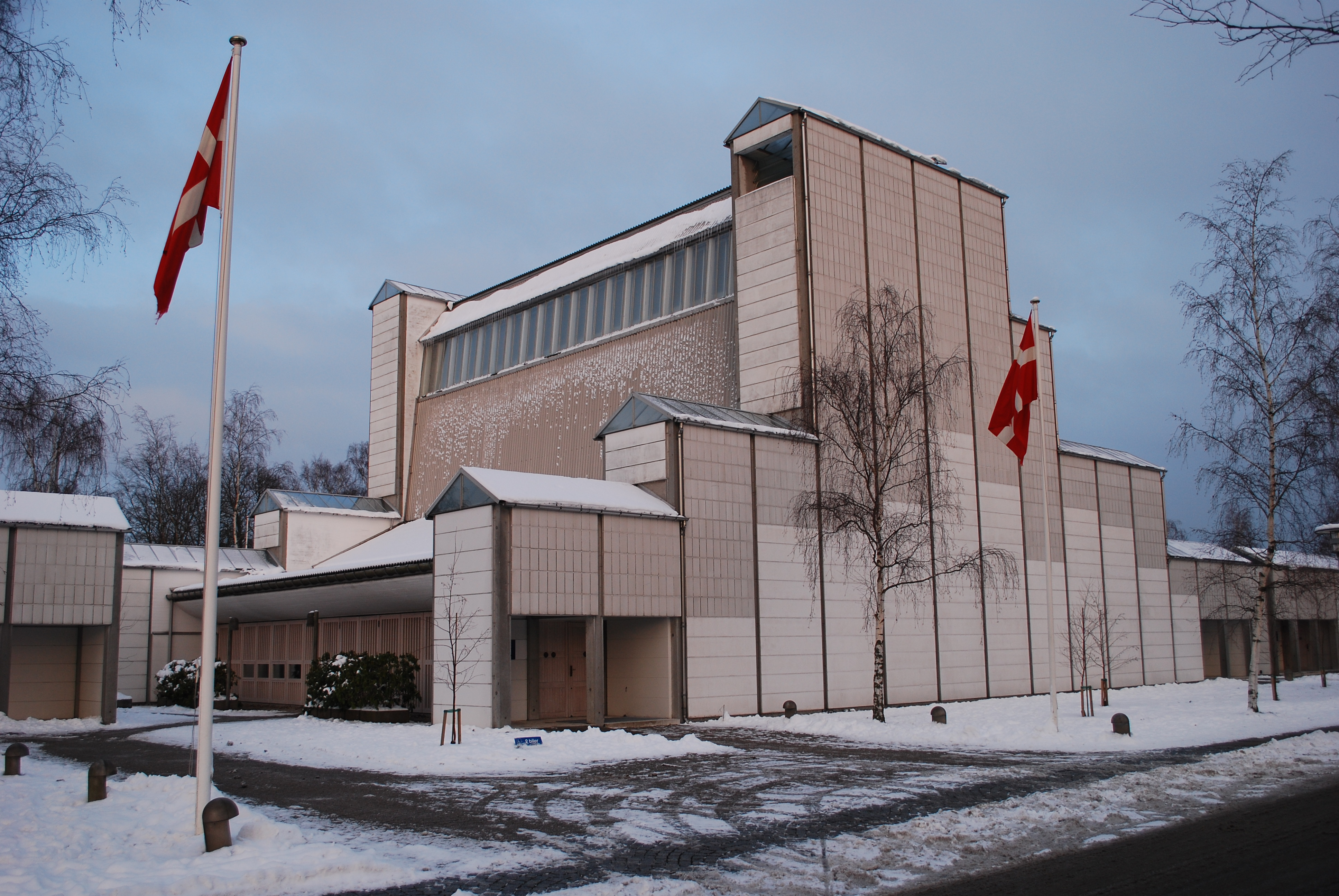 Bagsvaerd Church - Denmark